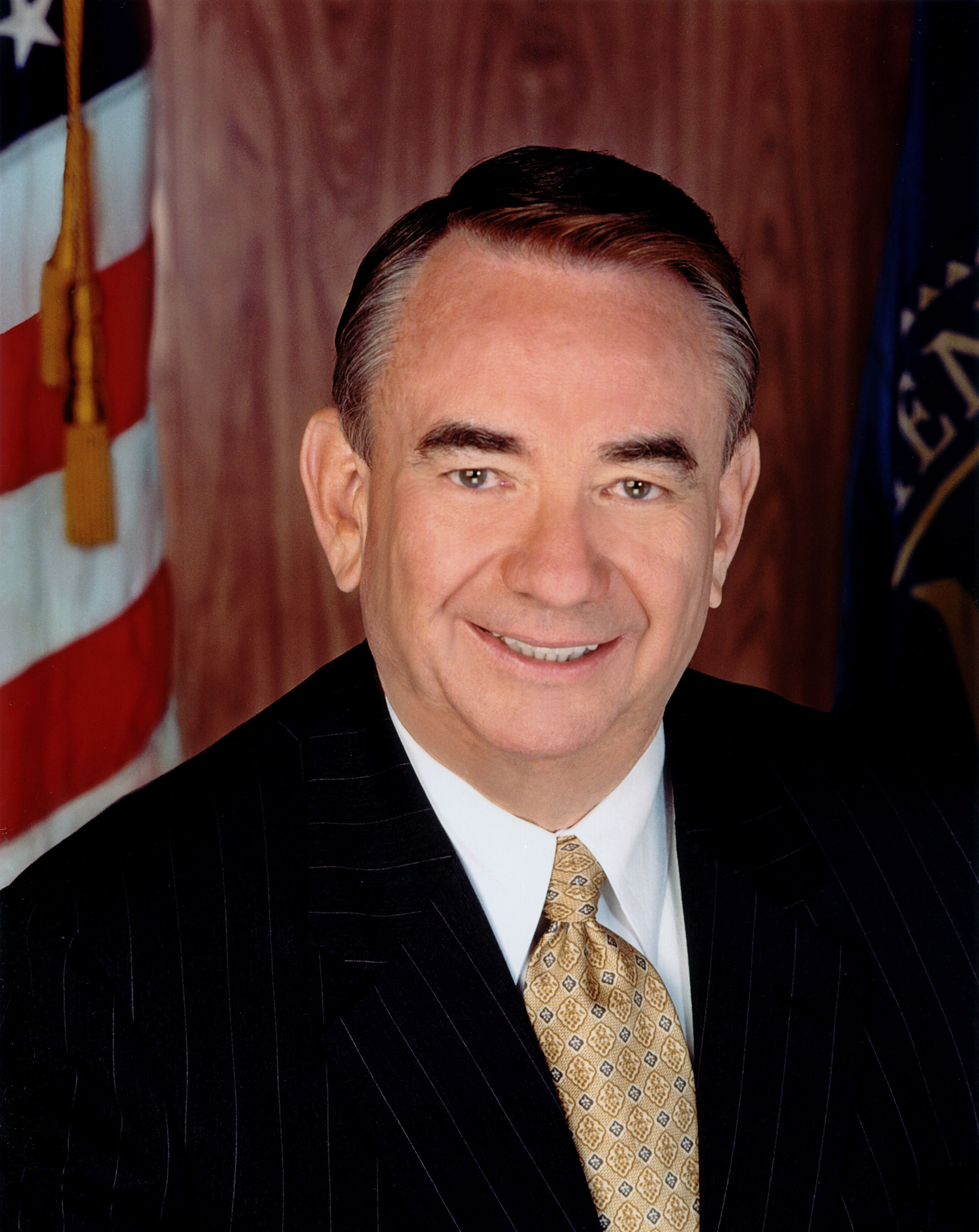 Press photo of Secretary of Health and Human Services Tommy Thompson.